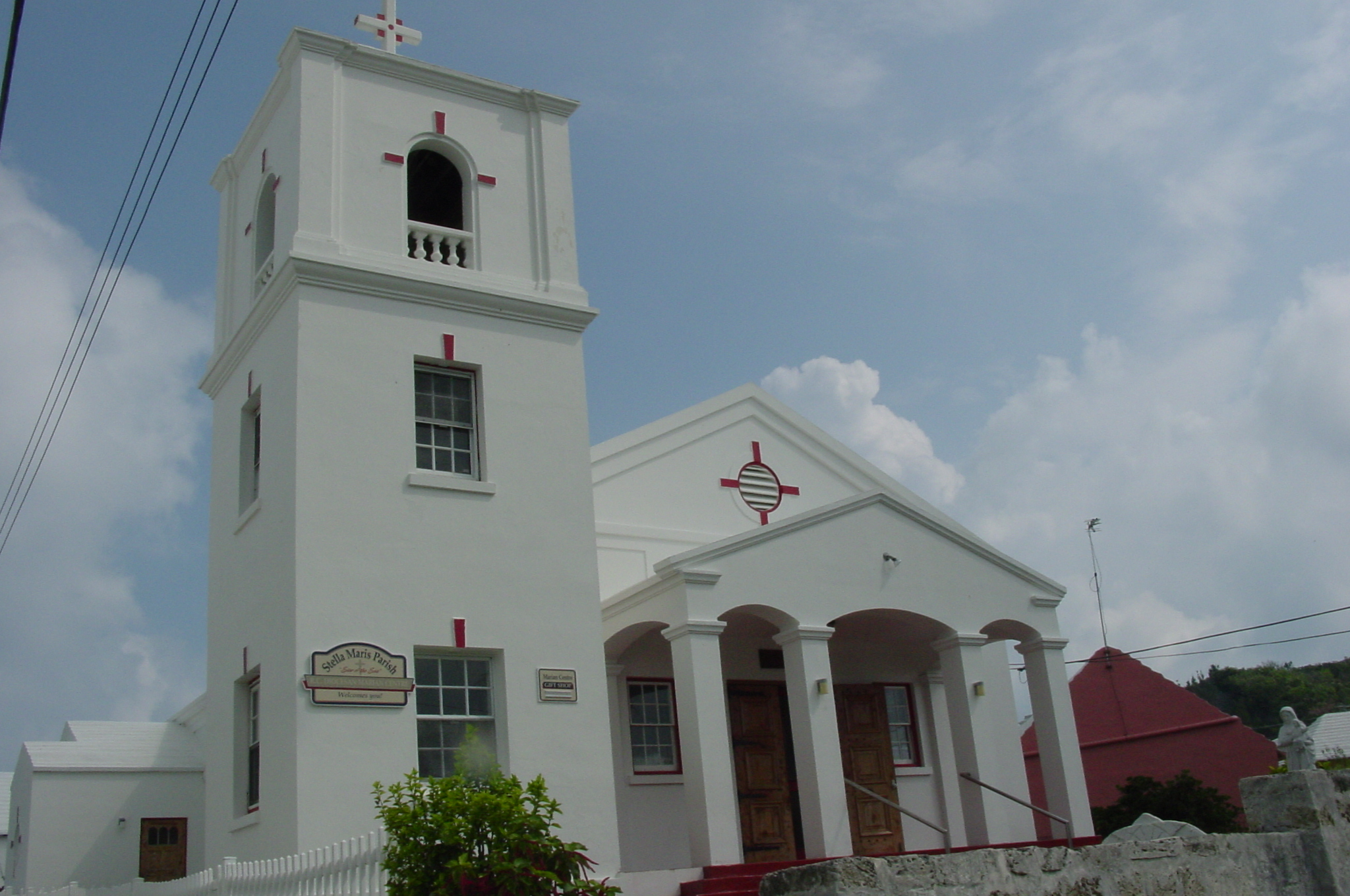 The Stella Maris Roman Catholic Church in St. George's, Bermuda.